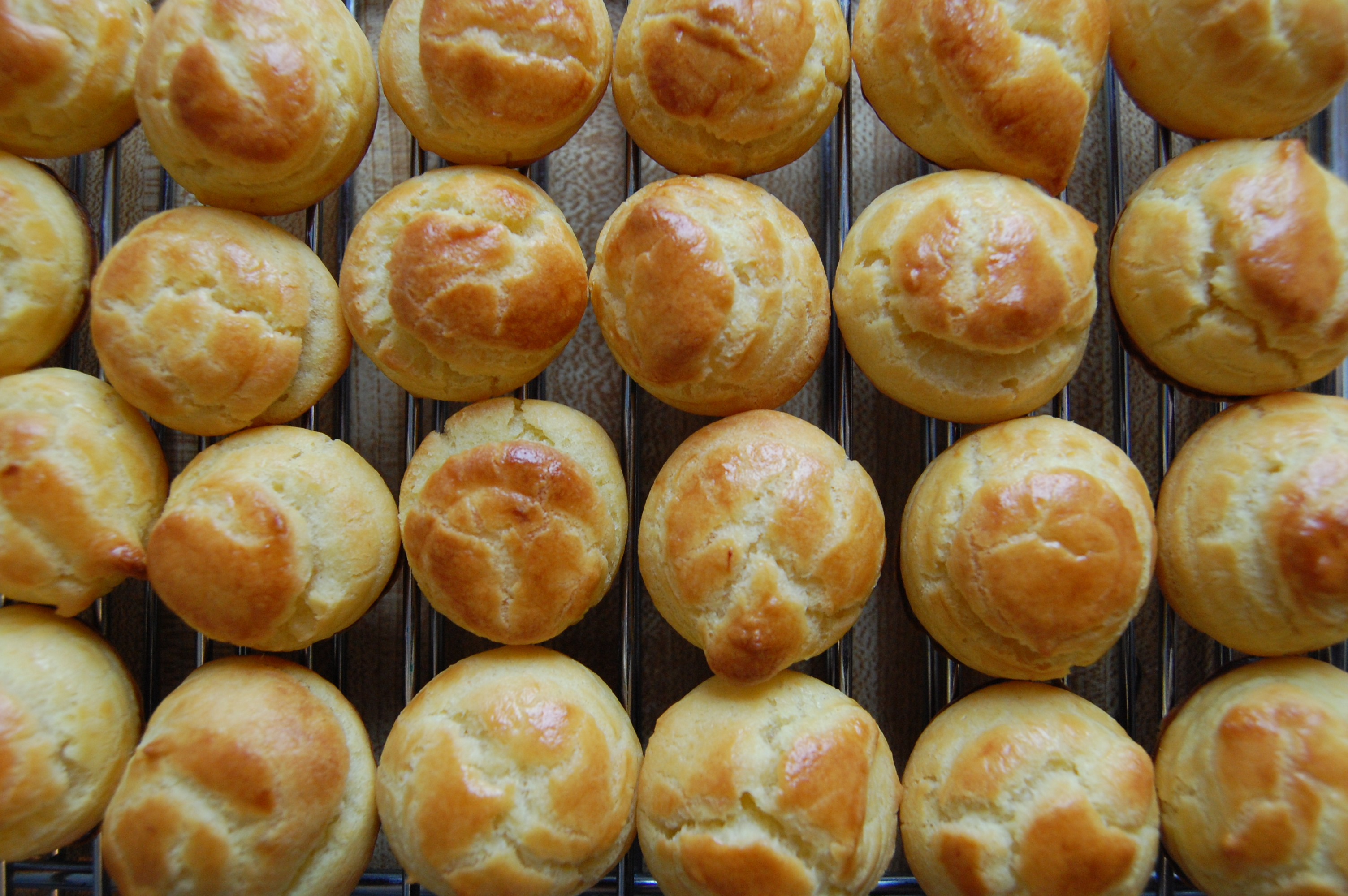 Choux pastry buns.